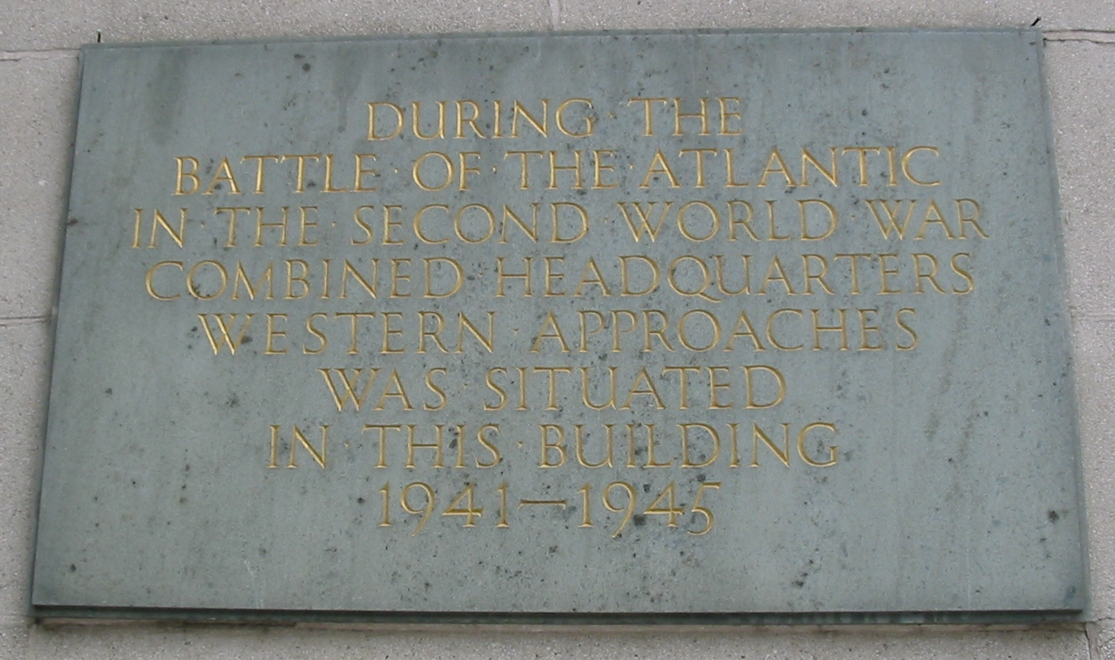 Nrf: Liverpool